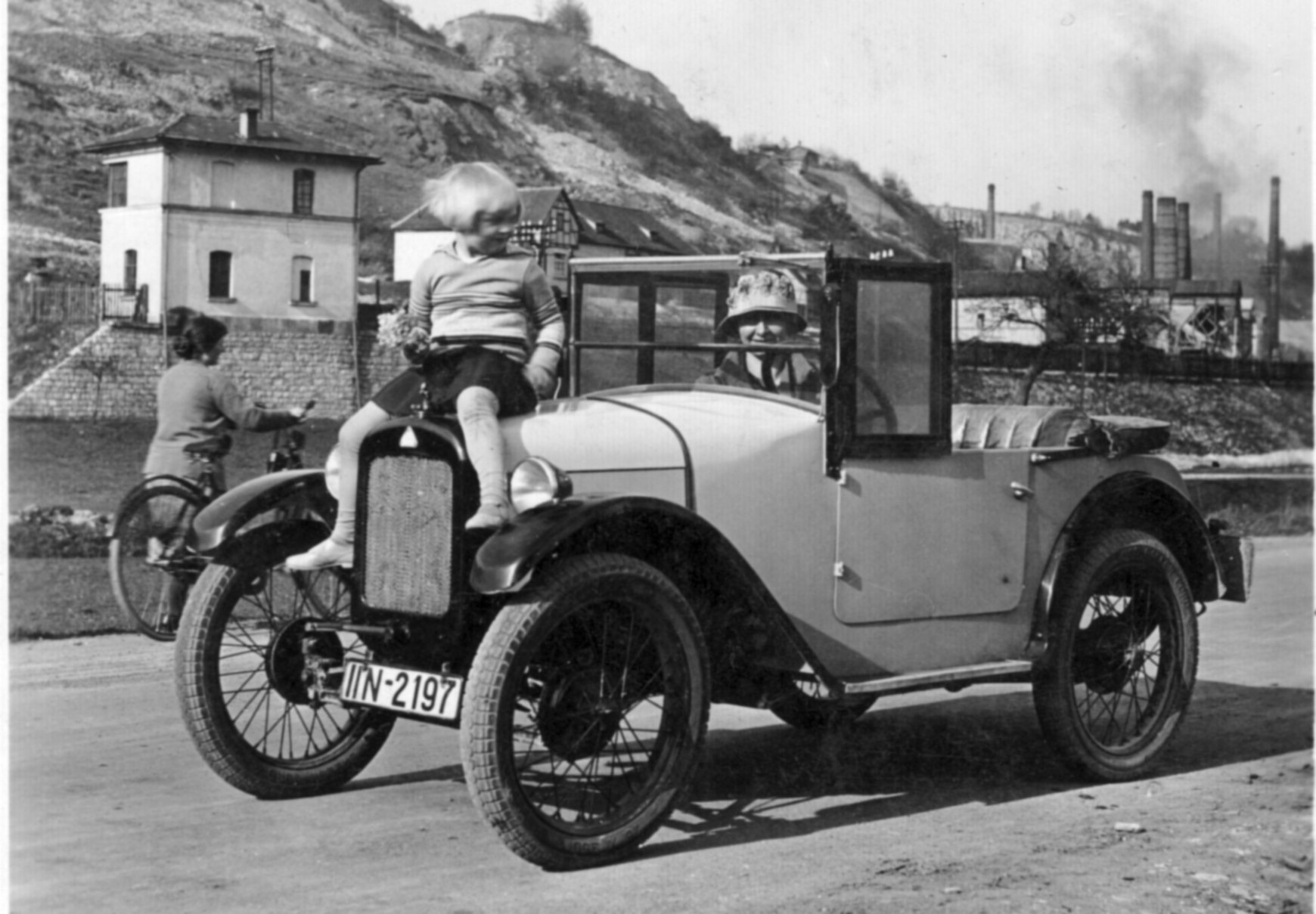 Dixi 3/15 DA at Grossglockner